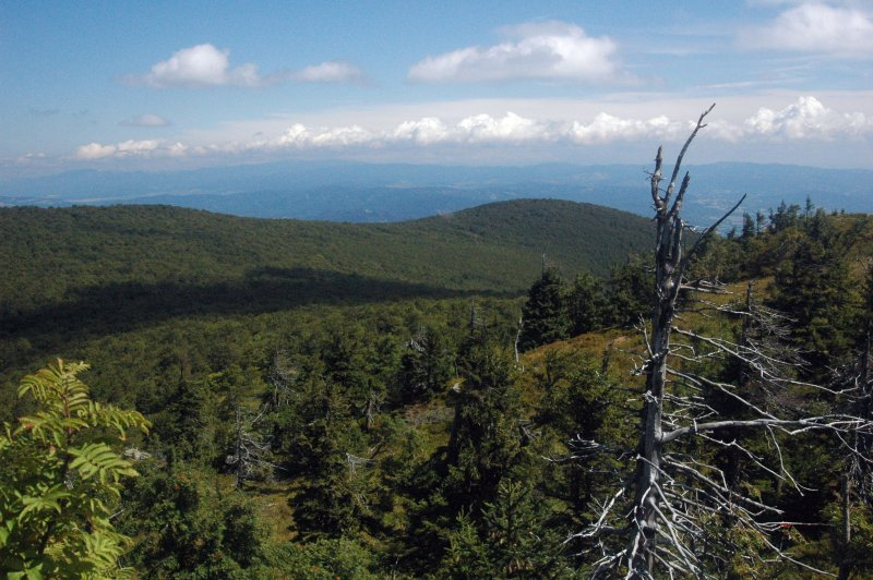 View from Mount Vtáčnik